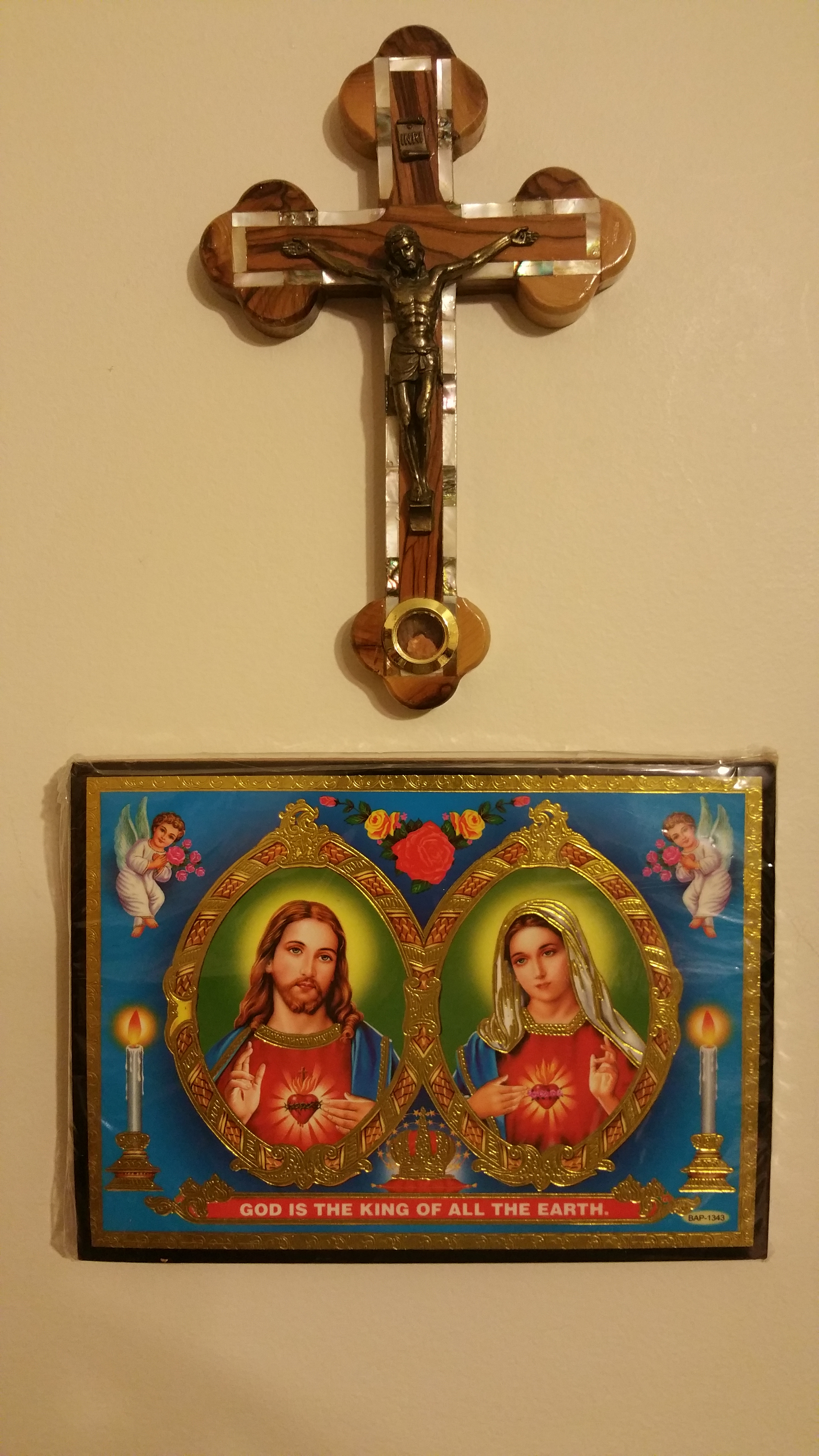 The image is of a crucifix from the Holy Land, as well as a plaque of the Alliance of the Hearts of Jesus and Mary (Sacred Heart of Jesus and Immaculate Heart of Mary) made by Avercart, hanging in the room of a Roman Catholic Christian. I clicked this picture on June 23, 2016.